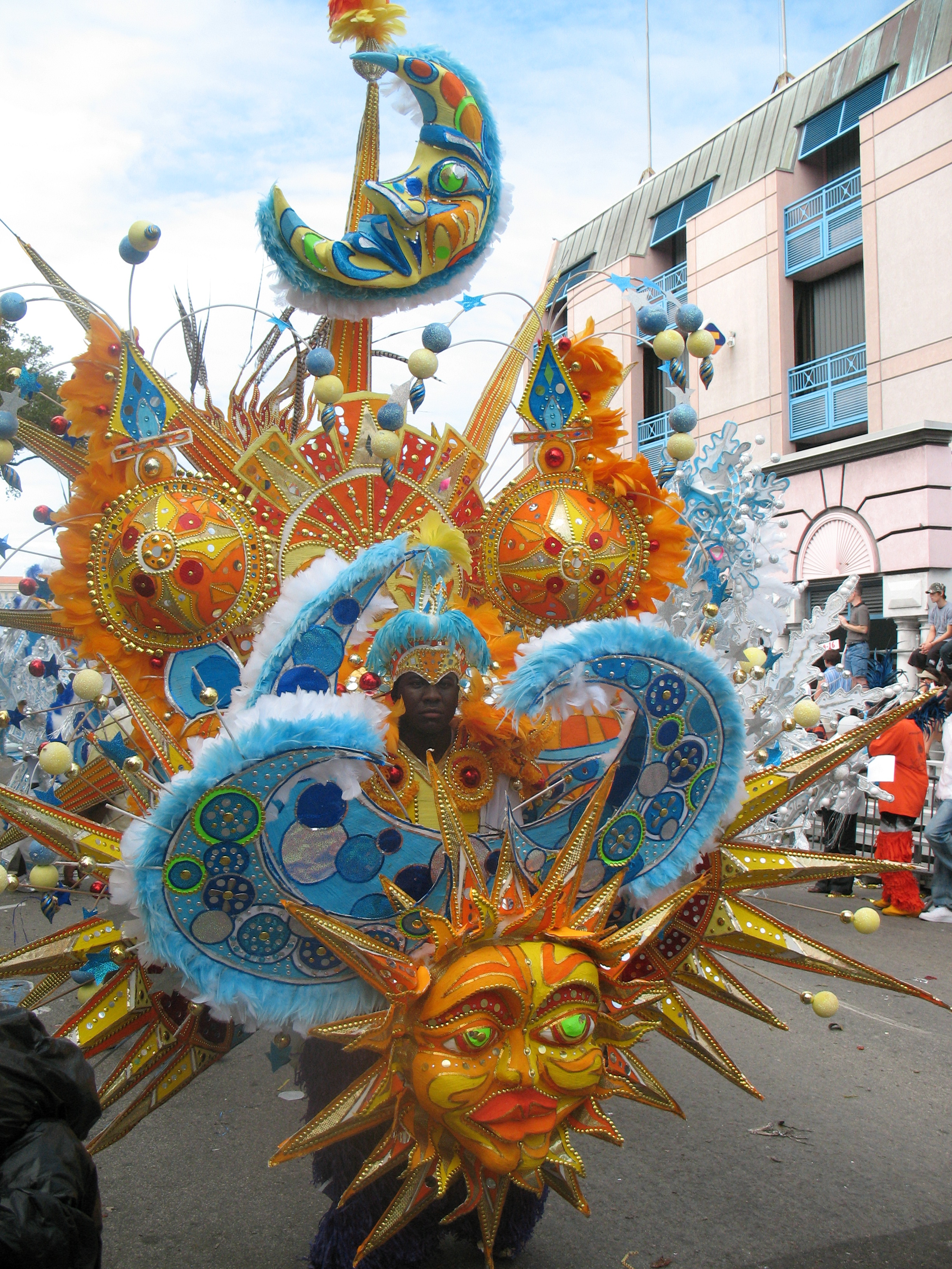 Junkanoo 'off the shoulder' dancer costume